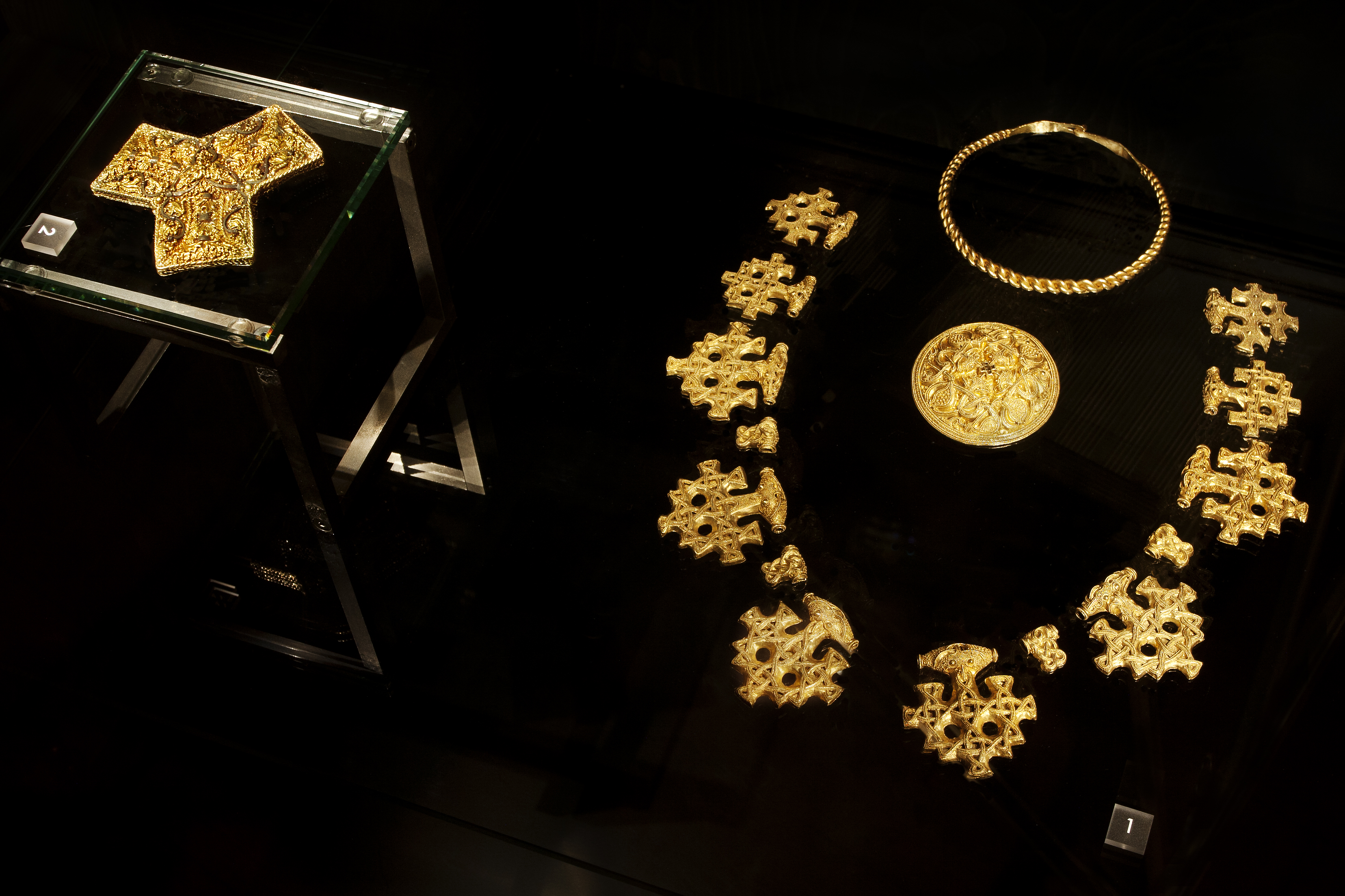 Press photos - VIKING exhibition - the National Museum of Denmark 22 juni - 17 november 2013.